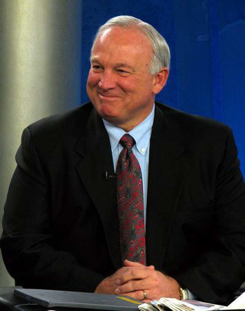 I personally took this photo of San Diego Mayor Jerry Sanders.